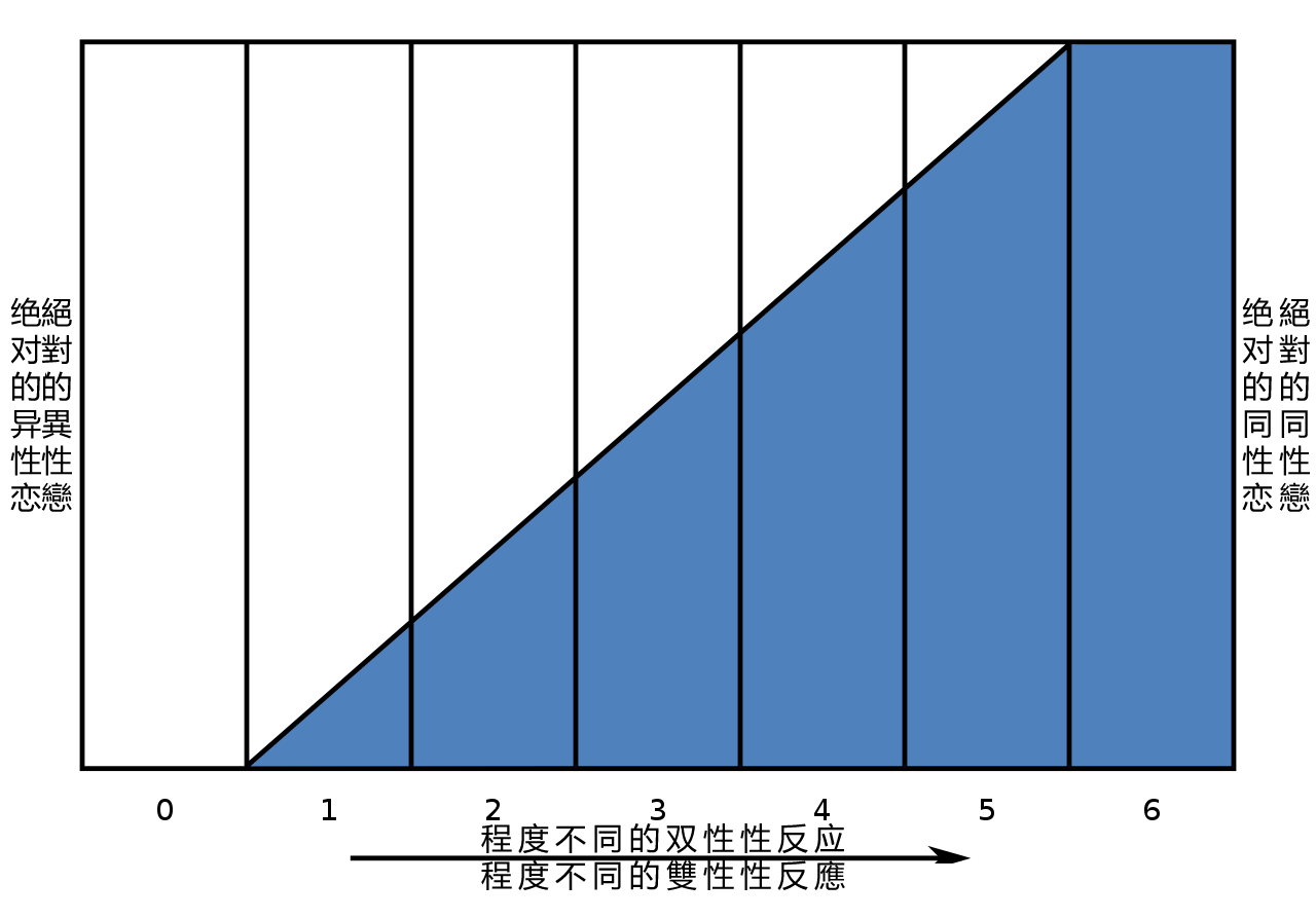 Kinsey's scale of heterosexual and homosexual responses, as outlined in Sexual Behavior in the Human Female (1953)